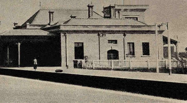 Suzhou Railway Station in 1908